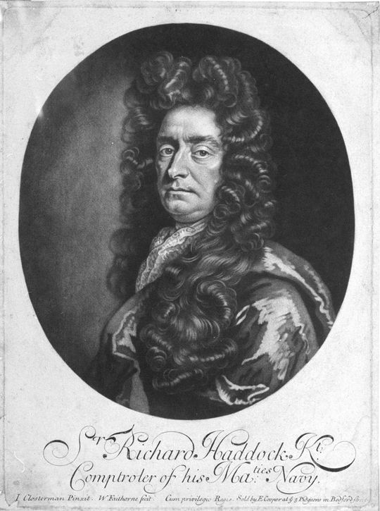 Sr Richard Haddock Kt. Comptroler of his Maties Navy [sic]